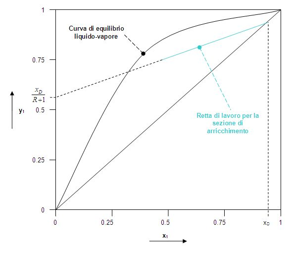 McCabe-Thiele method: liquid-vapour equilibrium curve and rectifiying section's conditions.